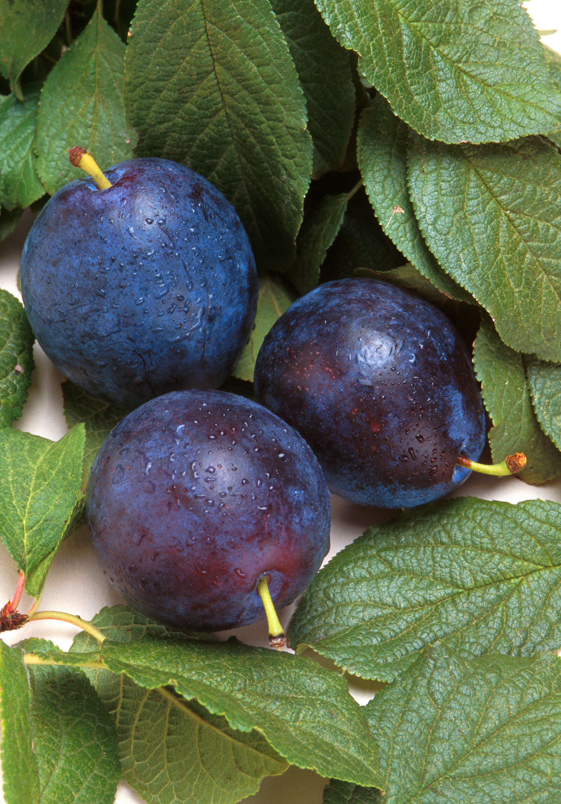 Bluebyrd plum.